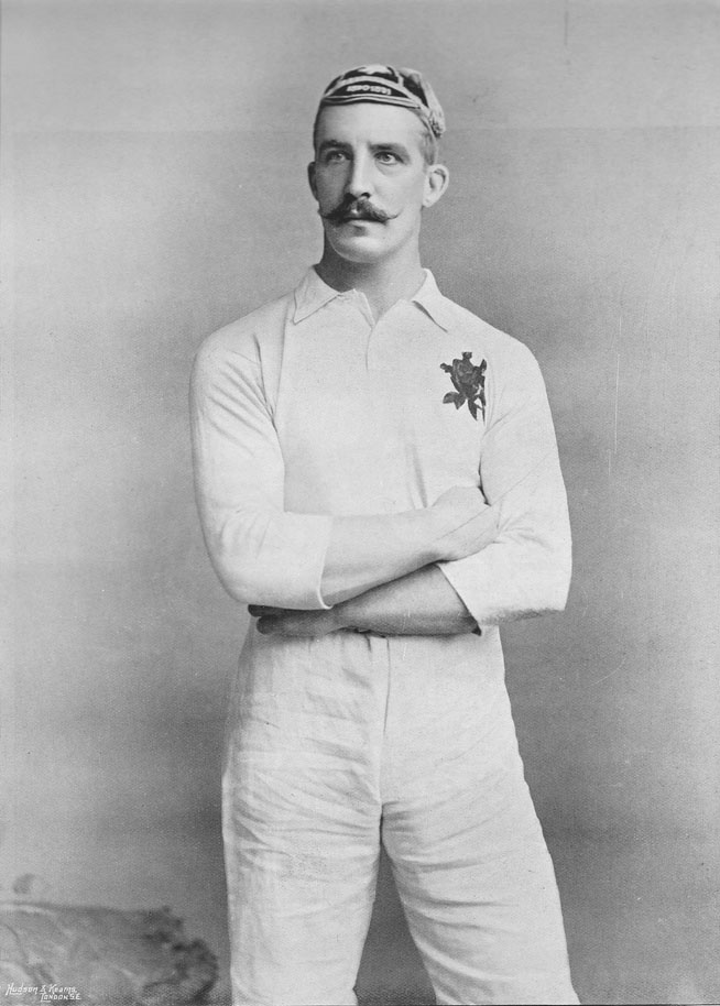 J.H. Rogers, player of England national rugby union team, in 1895.